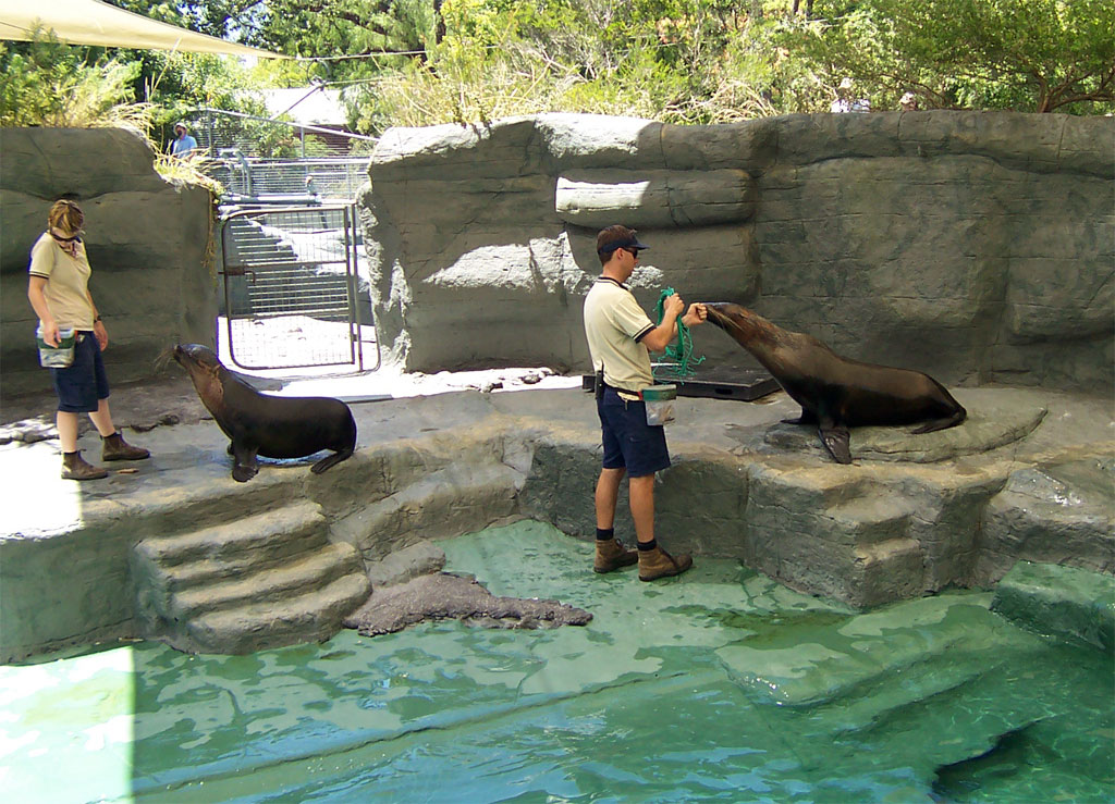 Seals at the Melbourne Zoo Subject to disclaimers. Subject to disclaimers.